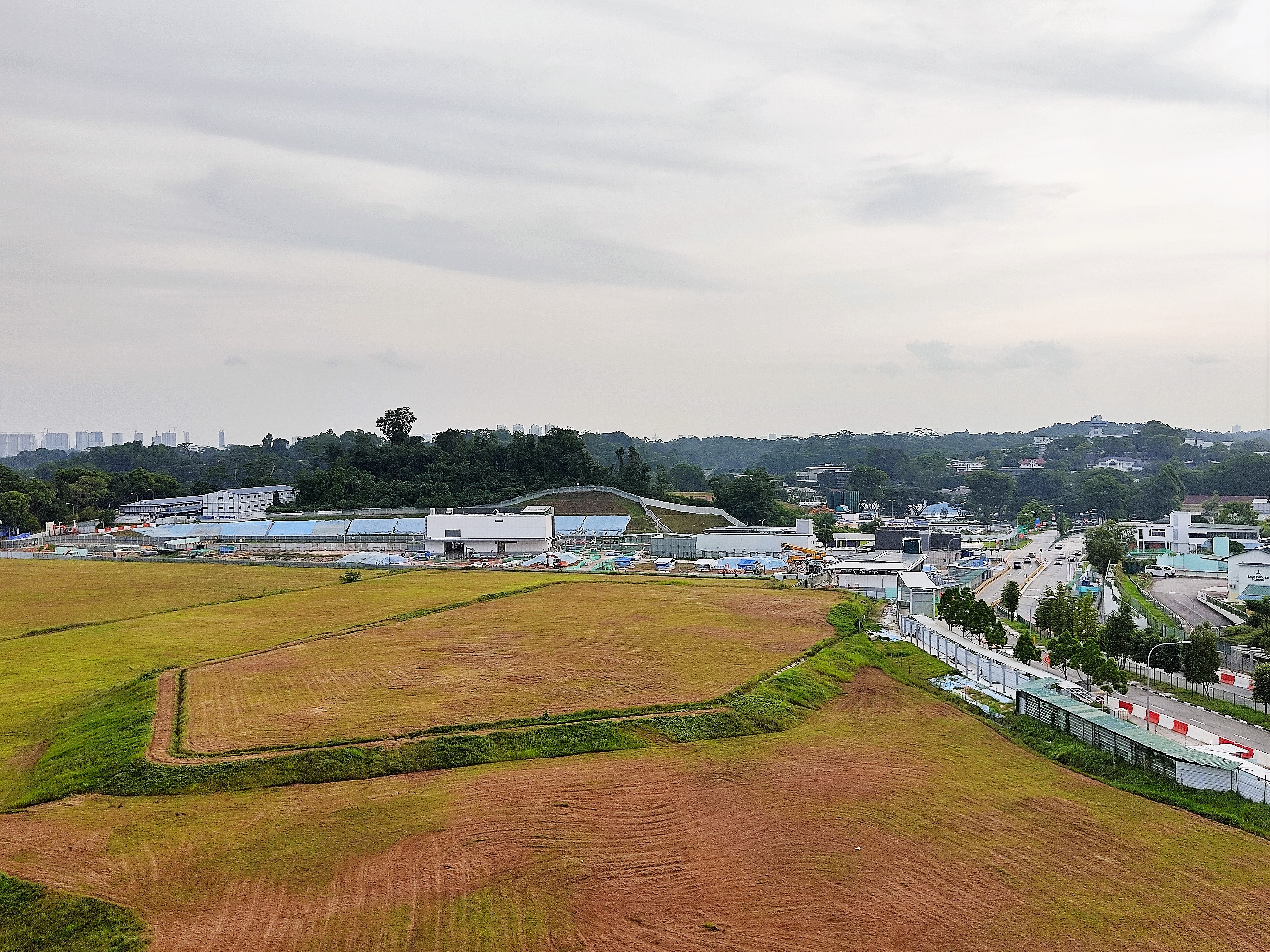 CC17 TE9 Caldecott Exterior